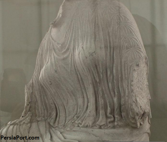 Marble statue was discovered in Persepolis which is the statue of Penelope (the loyal wife of Odysseus).